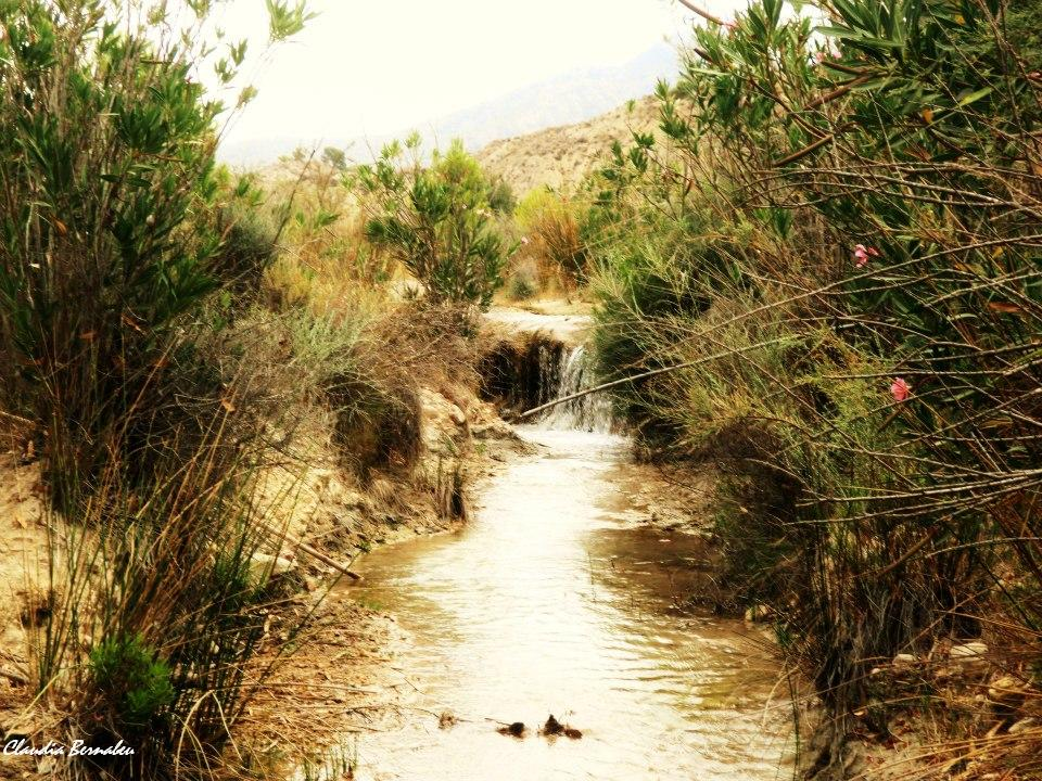 Section of the lower Chícamo's river in Abanilla, Murcia, Spain.